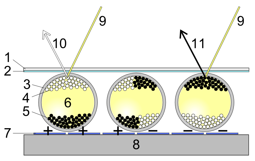 Electronic paper (Side view of Electrophoretic display). upper layer transparent electrode layer transparent micro-capsules positive charged white pigments negative charged black pigments transparent oil electrode pixel layer bottom supporting layer light white black 表面層 透明電極(ITO) マイクロカプセル 正に帯電した白色顔料 負に帯電した黒色顔料 透明分散媒 下部電極 支持層 外光 白色 黒色